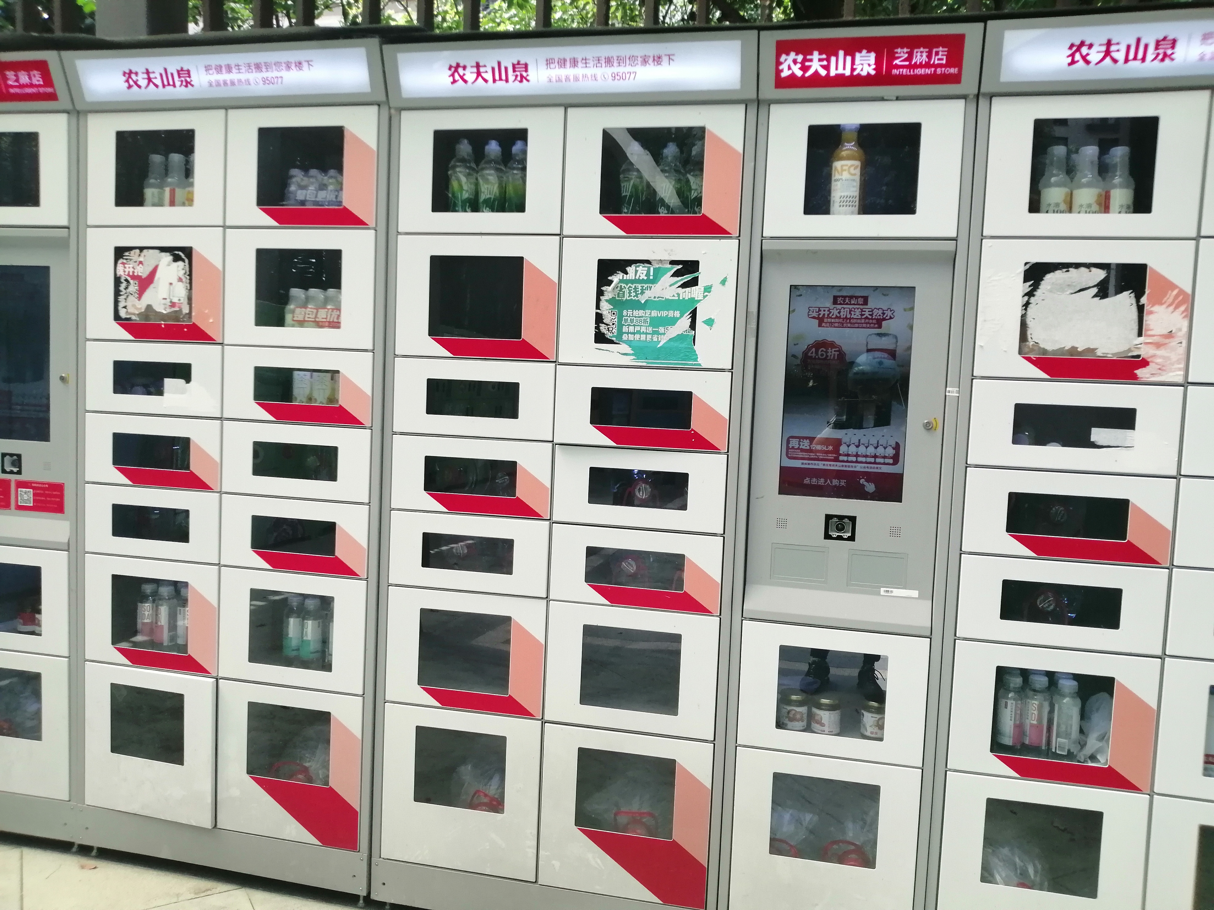 Nongfu Spring Vending Machine, located at the community of Suzhou. 中文（中国大陆）: 位于苏州一小区的农夫山泉自动售货机